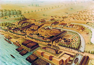 Alexander's iron foundry. Panorama 1840